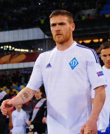 Antunes